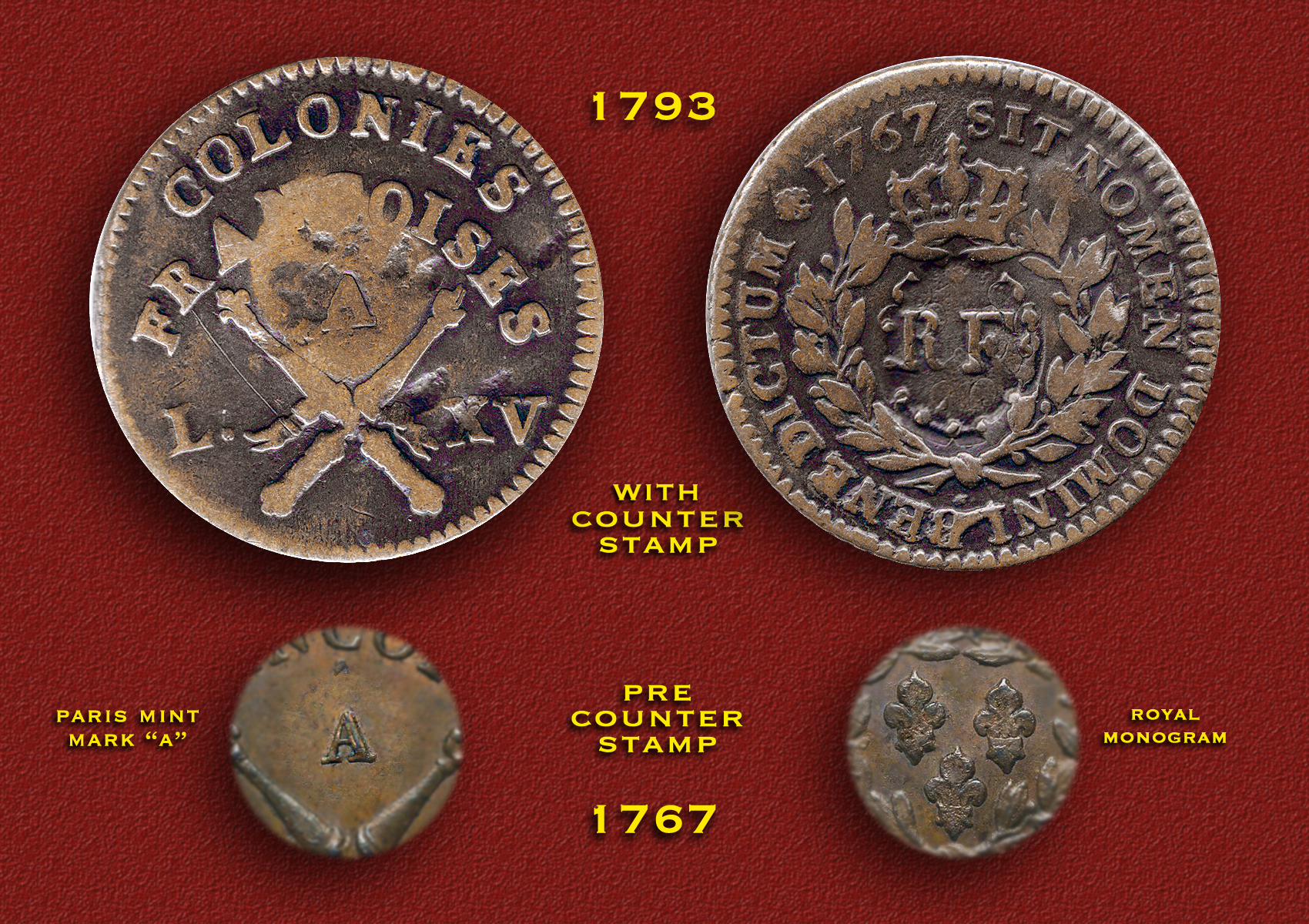 1767(A) Colonies François 12 Diniers (9 Diniers with c1793 "RF" Counterstamp) "Collot" Copper Sous. 28.3mm, 10.7 gm (0.337 oz) Breen #701 Original 1767 issue and c1793 revaluation (from 12 to 9 Diniers) by RF counterstamp Minted at Paris in 1767 (Mint mark: "A") under a Royal Edict of King Louis XV of France (1710-1774) for distribution in the Caribbean colonies of the French West Indies, as with an earlier French nine Denier copper coin issued in 1722 for use in French Canada, these 1767 twelve Denier copper "Sous" were disliked and largely unaccepted in the Indies because the planchets from which they were made were considered to be underweight for the denomination and thus few ended up into circulation. The coins were eventually recalled circa 1793 and returned to Paris to be counterstamped "RF" (for République Française) and reissued in the islands as "Collots" to be passed at a rate of nine Deniers. Some of these coins made their way to New Orleans through trade where they were circulated in greater numbers after France regained the Louisiana territory from Spain in 1800 and continued to circulate in Louisiana after the United States purchased the territory in 1803. Some also made their way into other sections of US where they were accepted as one cent coins during the coin shortage following the War of 1812. The obverse bears the mint mark "A" for Paris although this central area on the revalued coins was damaged during the counterstamping. The initials "L. XV" stand for Louis XV, while the reverse legend "SIT NOMEN DOMINI BENEDICTUM" translates as "Blessed is the name of the Lord." As the Bourbon monarchy had recently ended when the issue was revalued in 1793, the Royal monogram (the three Fleurs de Lys located within the crowned central wreath) of the original minting was obliterated by the counterstamp of a beaded oval containing the letters "RF" for the new French Republic.[1]